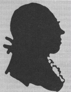 Johann Friedrich Hartknoch (1742-1789) was a German publisher and music dealer during the Enlightenment.